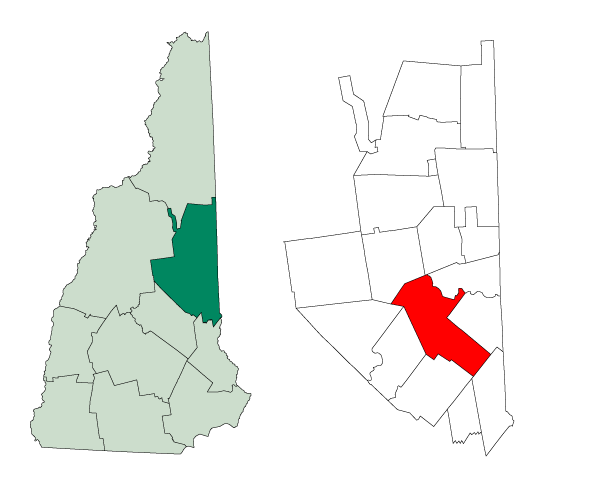 Created from Boundary/Border Outline Files of the Libre Map Project which held a BY-SA creative commons license. Data origionally from 2000 US Census boundary data.